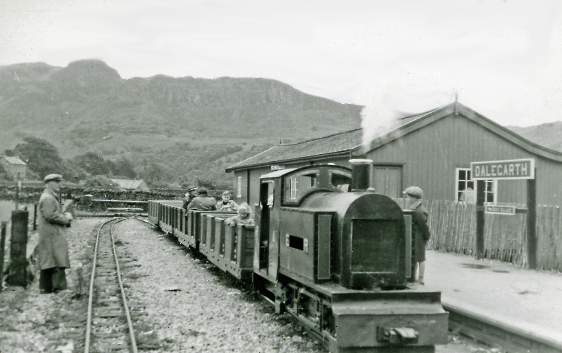 Ravenglass & Eskdale train at Dalegarth, 1951. View SW, towards Ravenglass. The locomotive is a petrol-electric '0-4-4', probably No.4 'Passenger Tractor' - but confirmation needed?